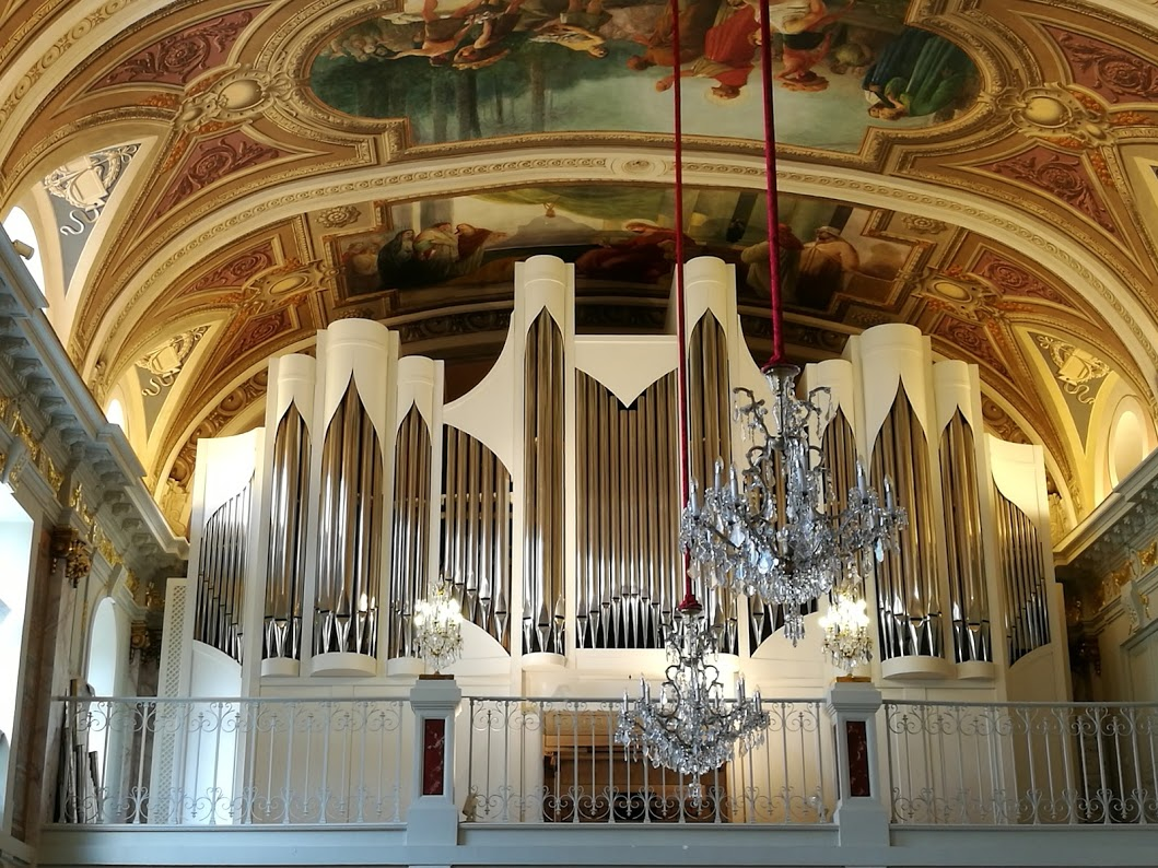 New organ of the Sacred Heart of Monaco Church